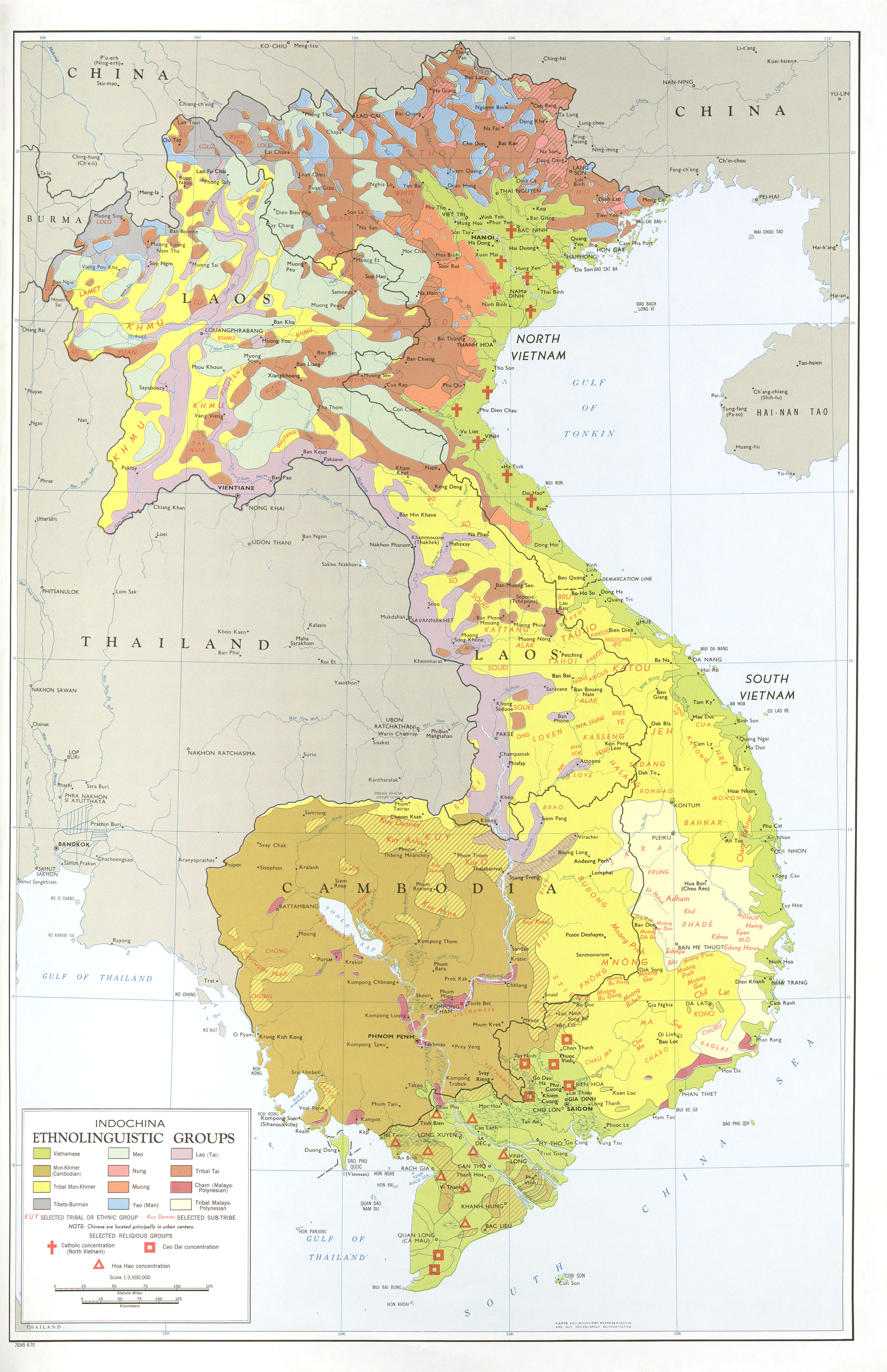 Ethnolinguistic map of Vietnam, Laos and Cambodia (1970)